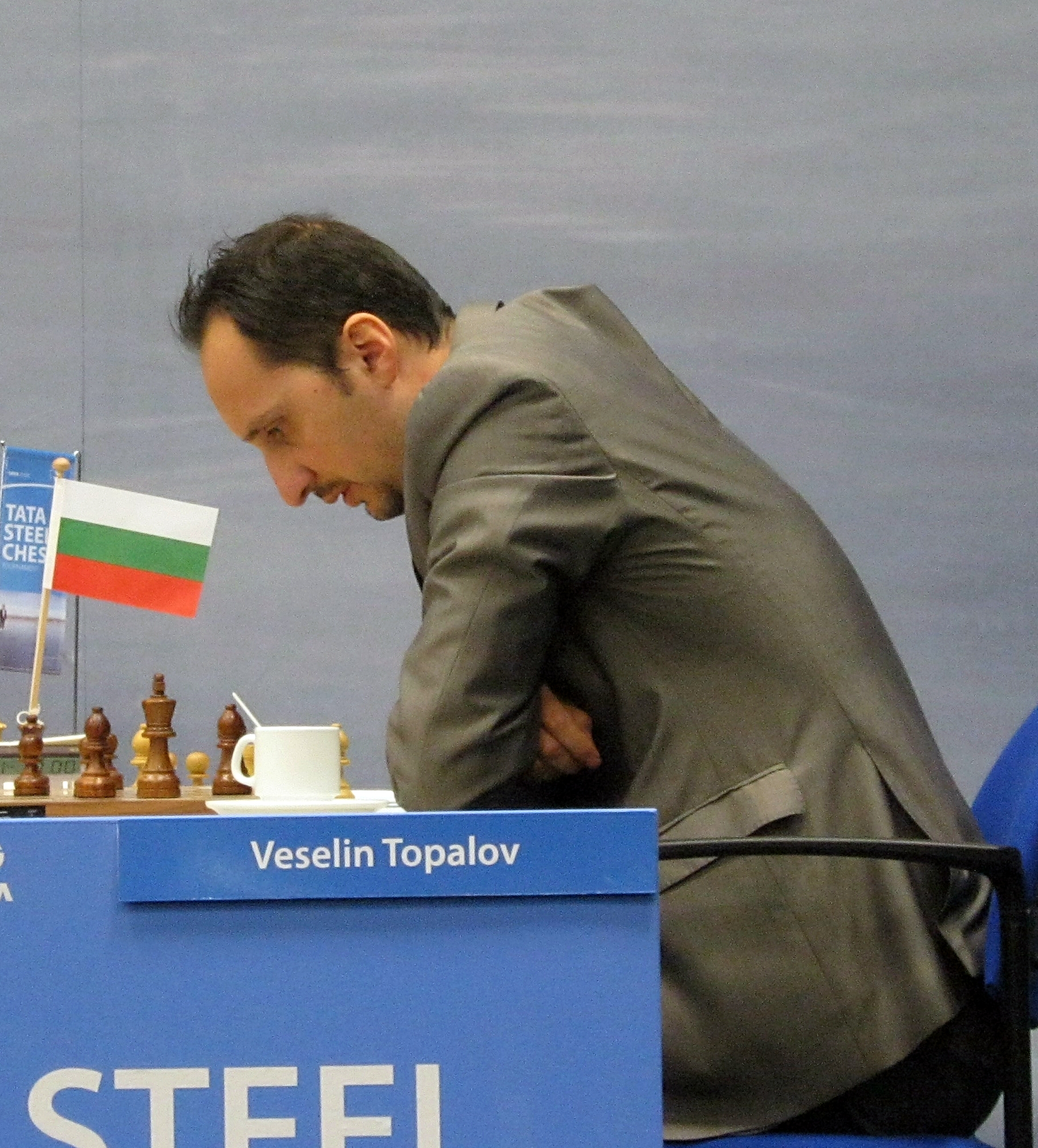 Veselin Topalov, chess grandmaster from Bulgaria